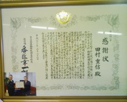 Letter of Thanks to Mr.Shigenobu Tamura